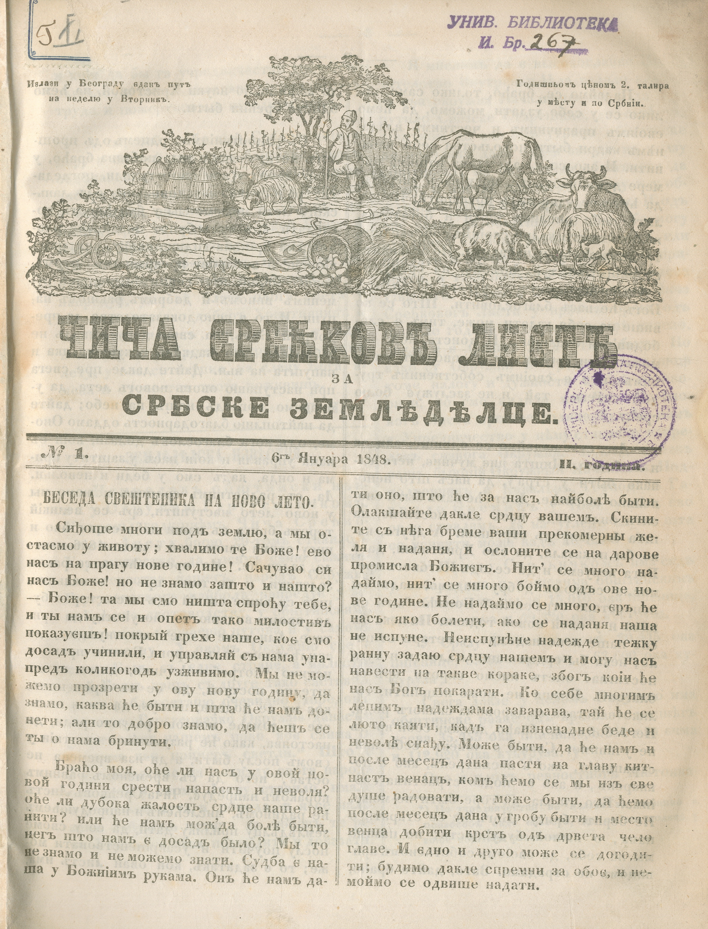 Cover of Serbian magazine Čiča Srećkov list, Belgrade, number 1, 6. January, 1848. Srpski (latinica): Naslovna stranica časopisa Čiča Srećkov list, Beograd, broj 1, 6. Januar, 1848.